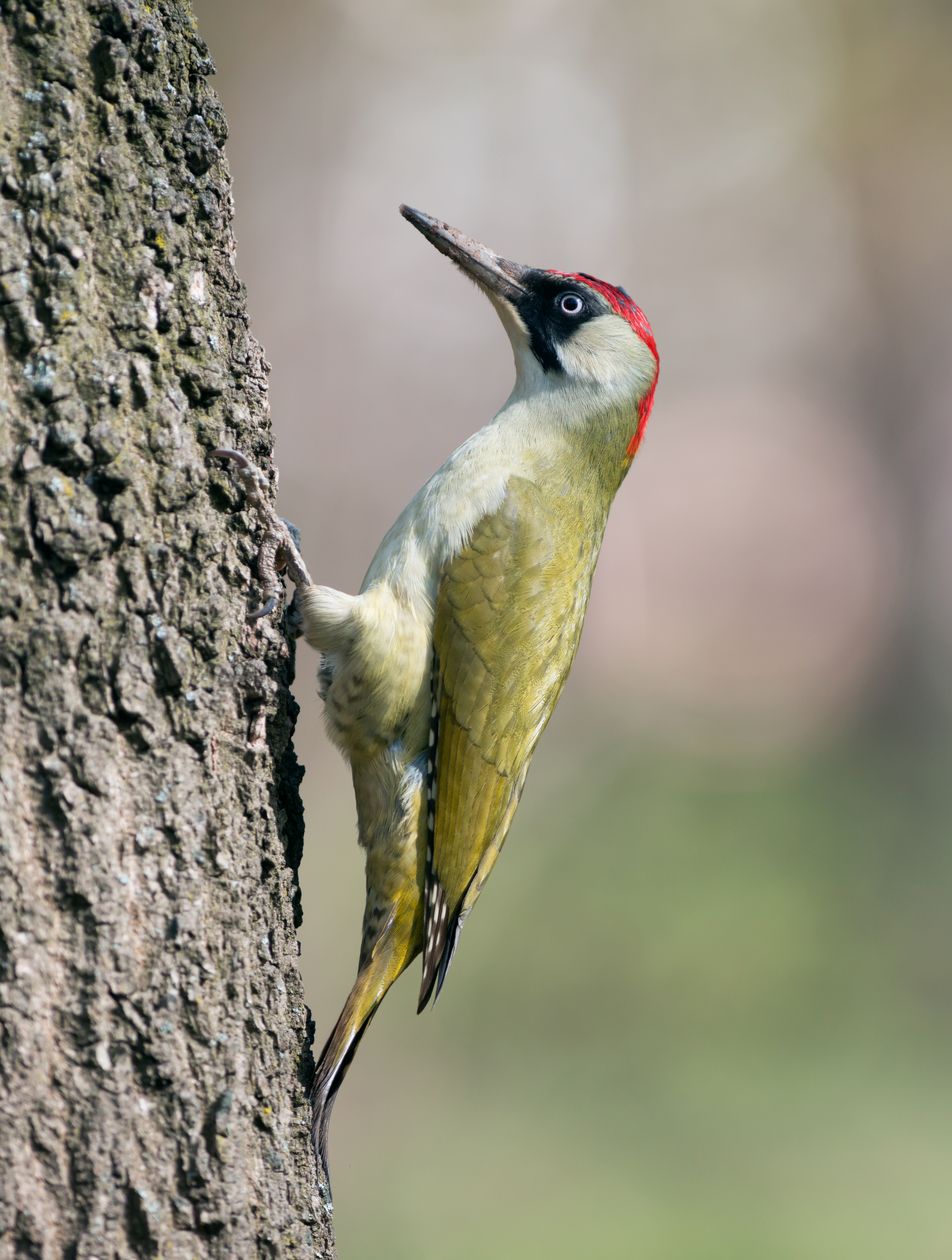 European green woodpecker (Picus viridis). Chernivtsi, Ukraine.